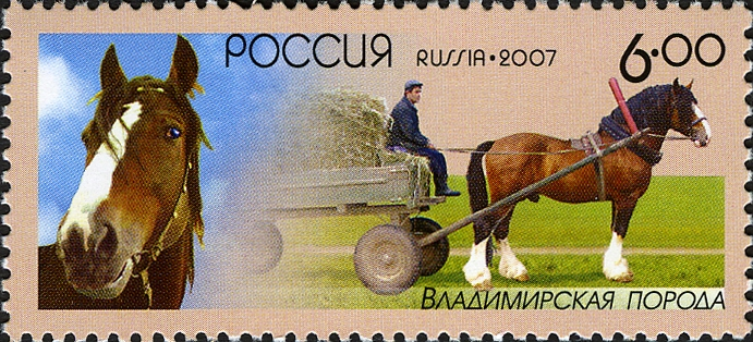 Stamp: Native Horse Breeds - Vladimir breed